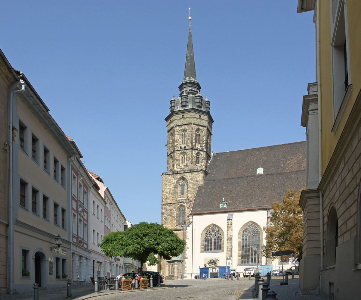 St. Peter's Cathedral in Bautzen in Saxony, Germany. Fleischmarkt (German for “meat market”) in front. Town hall to the right.